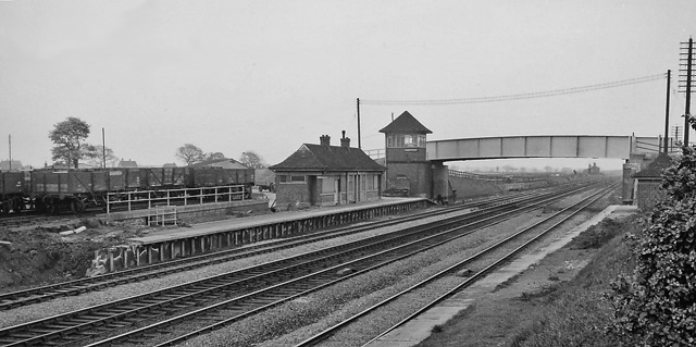 Beningbrough Station. View SW, towards York; East Coast Main Line, York - Northallerton section. Station closed to passengers 15/9/58, goods 5/7/65. The station, along with others on this section was rebuilt in 1933, when this section, one of the most important stretches of railway in the country, was widened. The route is now electrified.